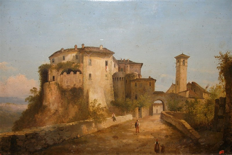 Painting "Castello di Malnido a Villafranca in Lunigiana", by Giuseppe Alinovi.